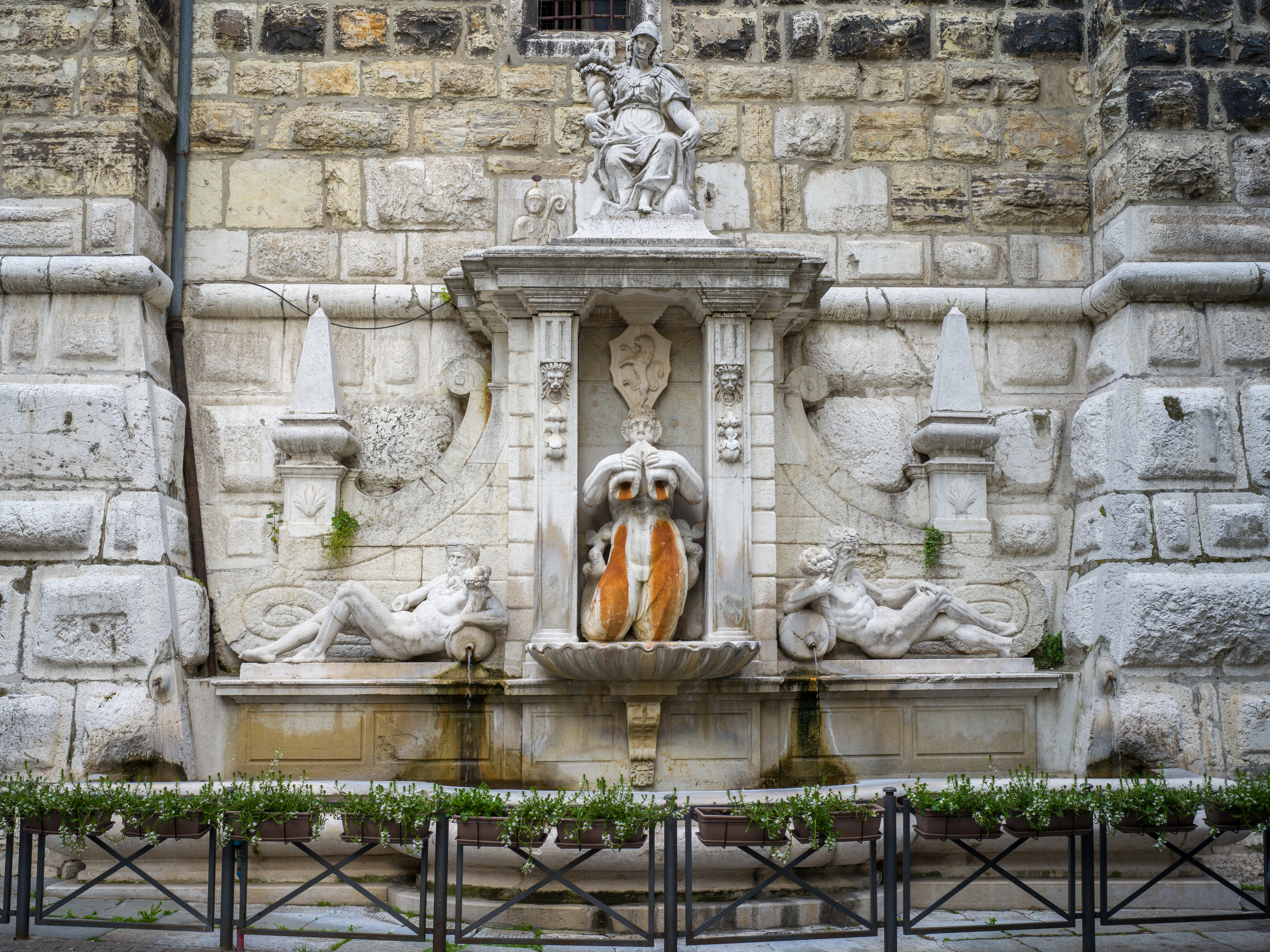 The Fontana della Pallata fountain under the "Torre della Pallata" tower in Brescia.